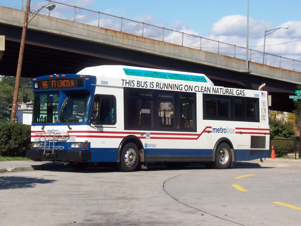 Orion 07.501 CNG 3006, at the Brookland/CUA station in Washington, DC.